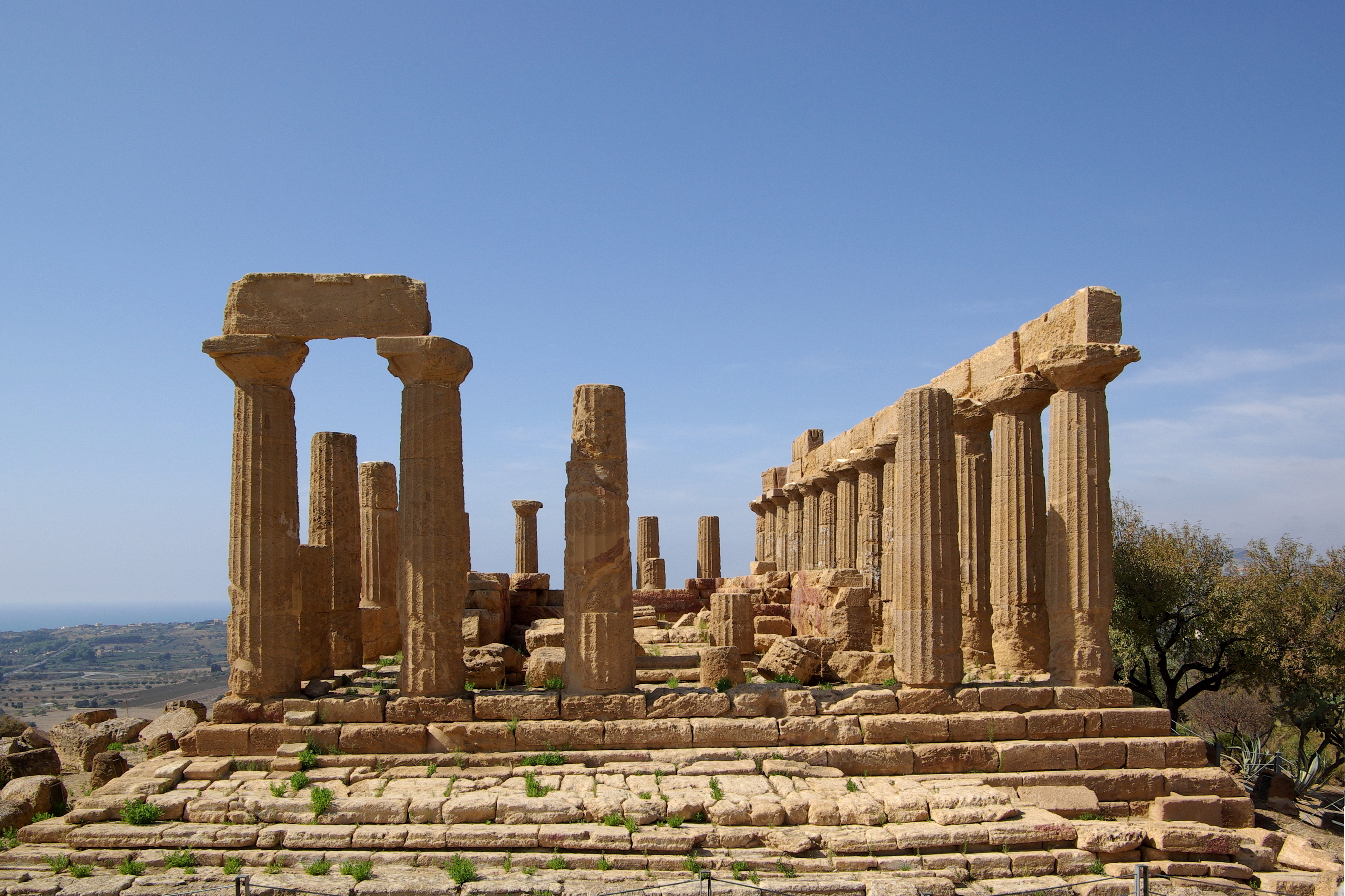 Italy, Sicily, Agrigento, Valley of the Temples, Temple of Juno Lacinia